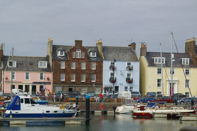 Arbroath Harbour. The row of houses are all individually Category B listed, and from right to left, comprise 2 & 3 The Shore (ref 21225, in yellow), 4 The Shore (Harbour House) (ref 21226, in blue), 6-9 The Shore (ref 21227, in natural stone) and 10-11 The Shore (ref 21228, in pink)